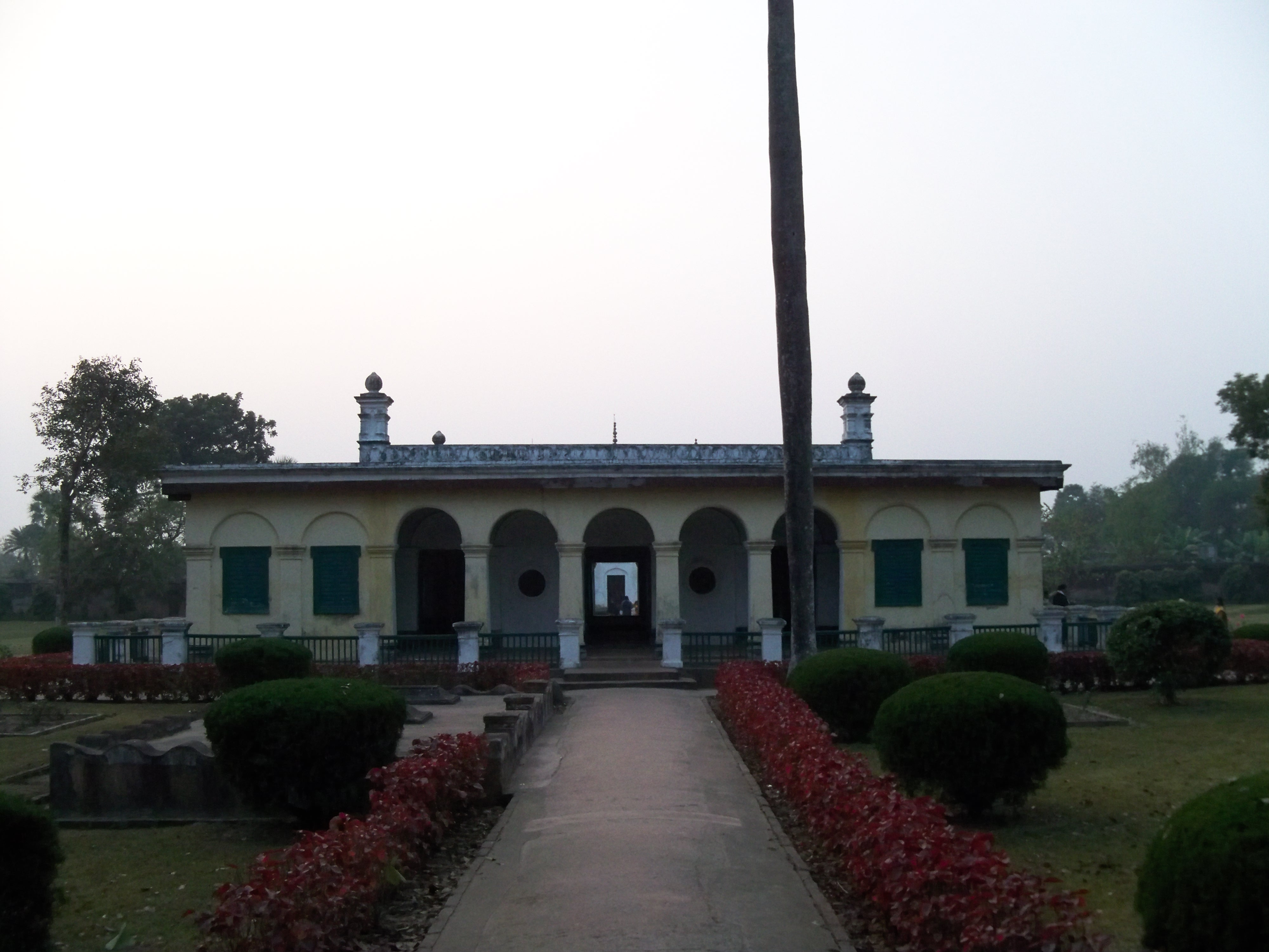 Tomb of Alivardi Khan & the tomb of Seraj-ud-daullah